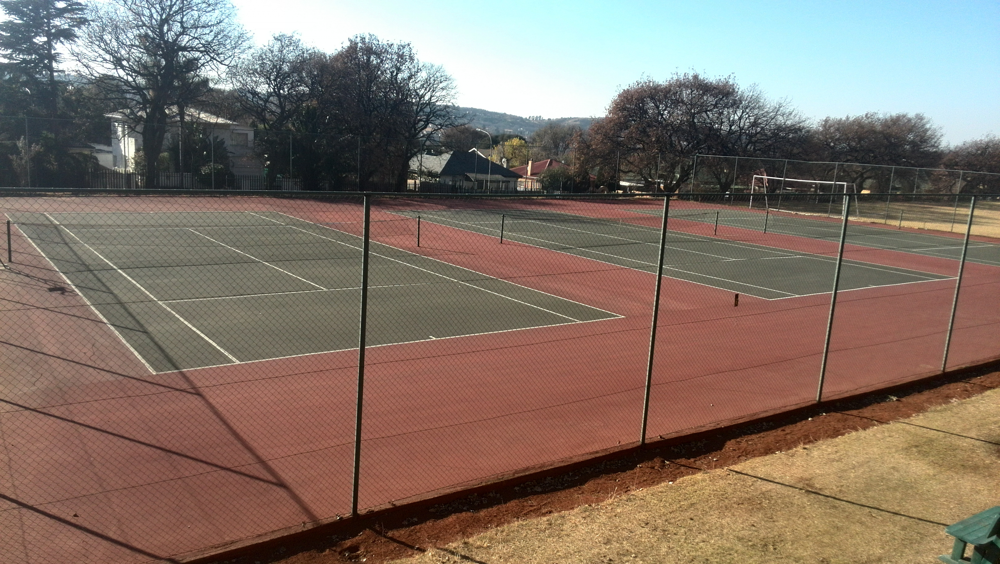 Another Jeppe Girls tennis court.